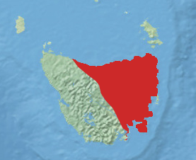 The Distribution of the Eastern Bettong